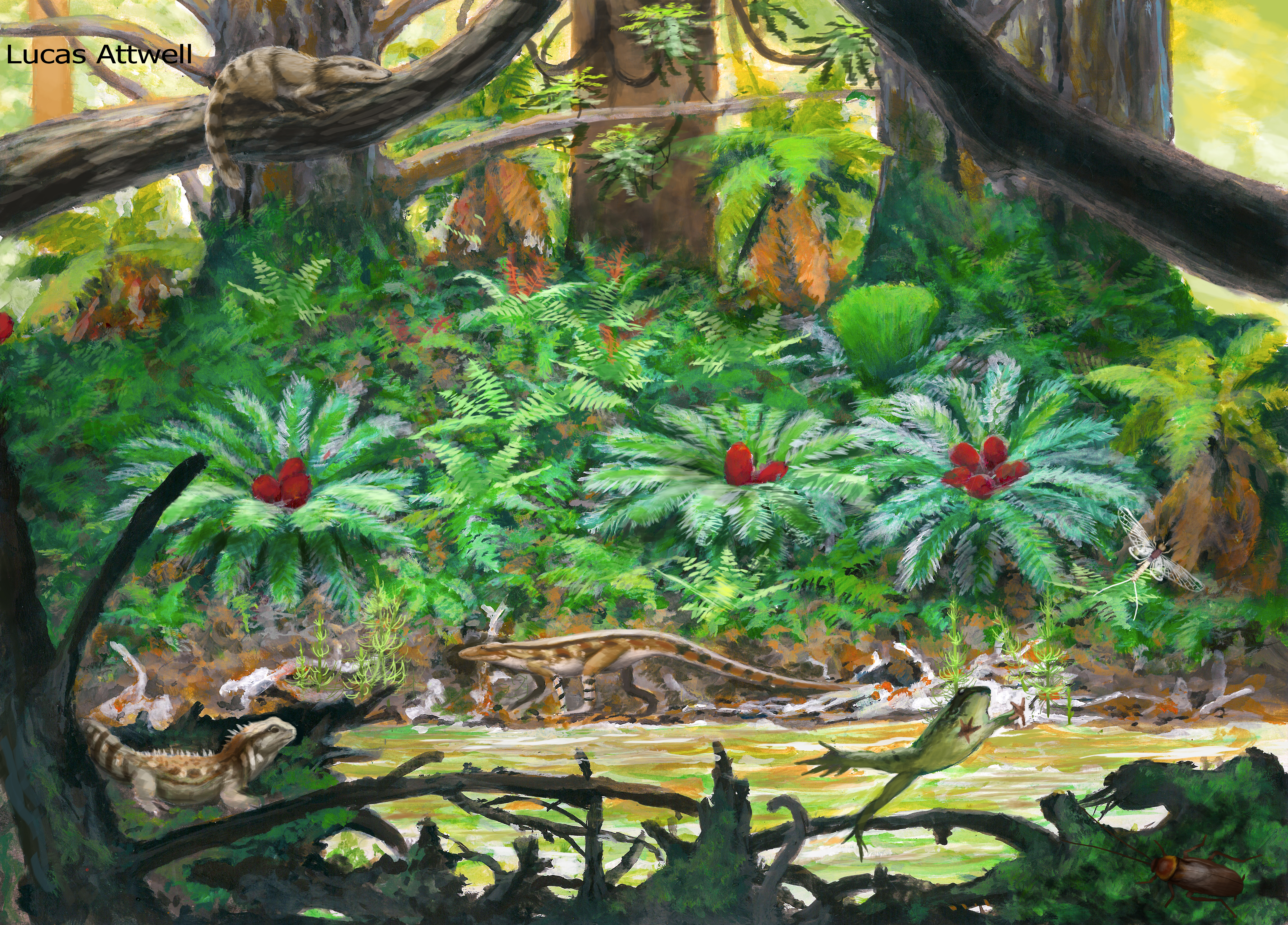 Restoration of the inland especulative Flora of the Early Jurassic (Pliensbachian) Drzewica Formation, of Szydłowiec, Poland. Includes several espceies cited on the document "Middle Liassic age of the flora from Chmielow, near Ostrowiec (central Poland) and its significance for stratigraphy of the continental Jurassic]". Also appears several especies of fauna: -Trithylodontidae Indet. -Sphenodotidade Indet. -Sphenosuchia sp. -Archaeobatrachia sp. -Insecta various sp.